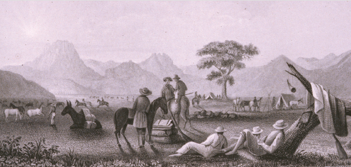 Sutter Buttes USEE campsite 1841